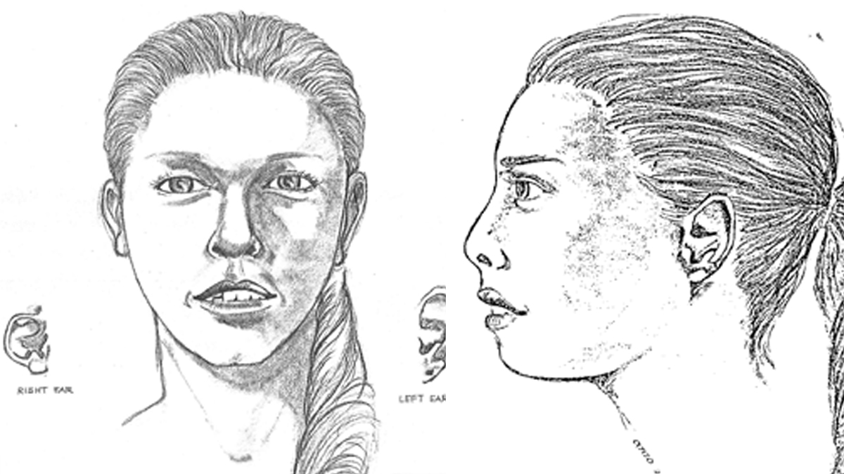 reconstruction of an unidentified murder victim found in Otay, CA on 14 February 1978.